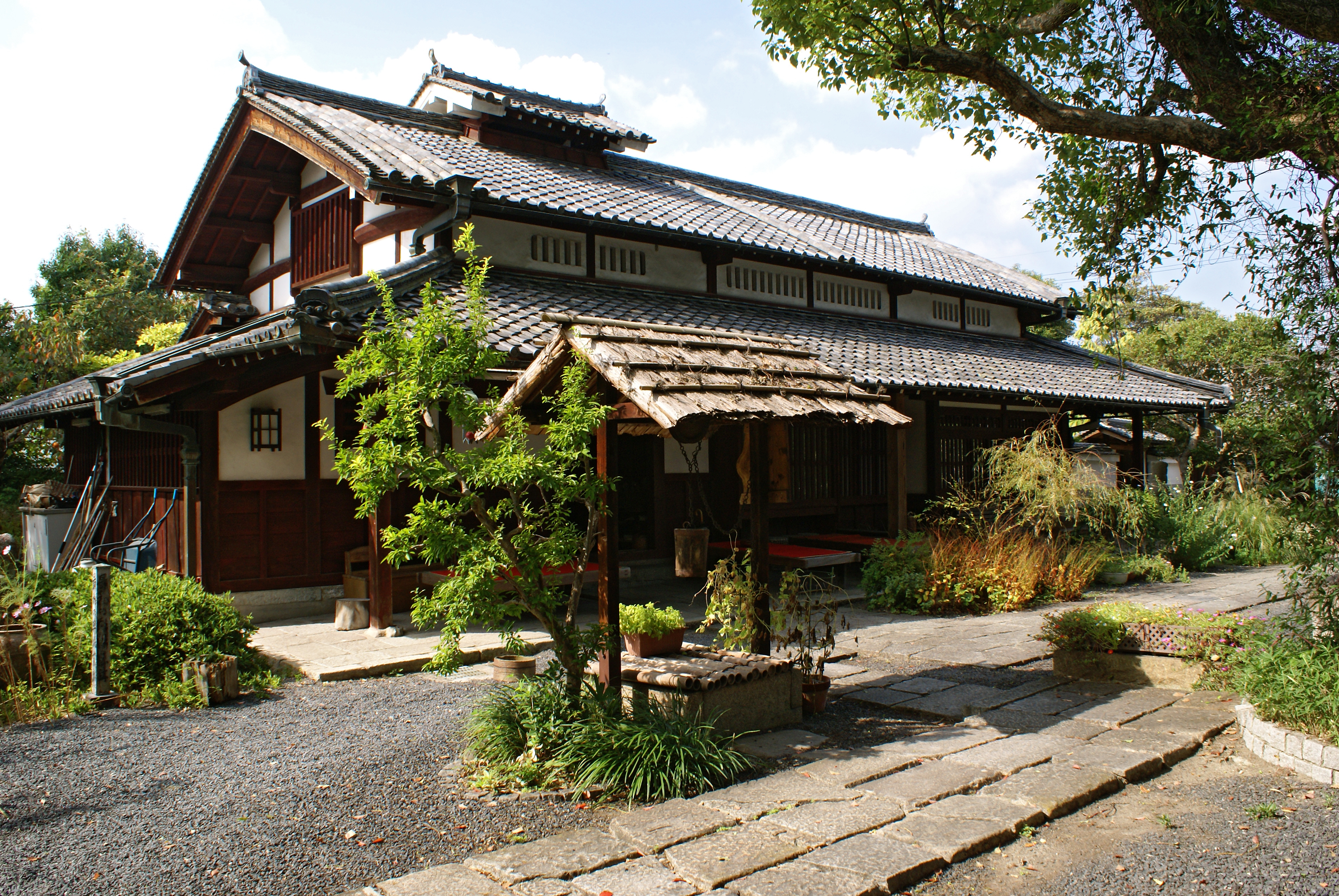 Kenkichi Tomimoto Memorial Hall in Ando, Nara prefecture, Japan